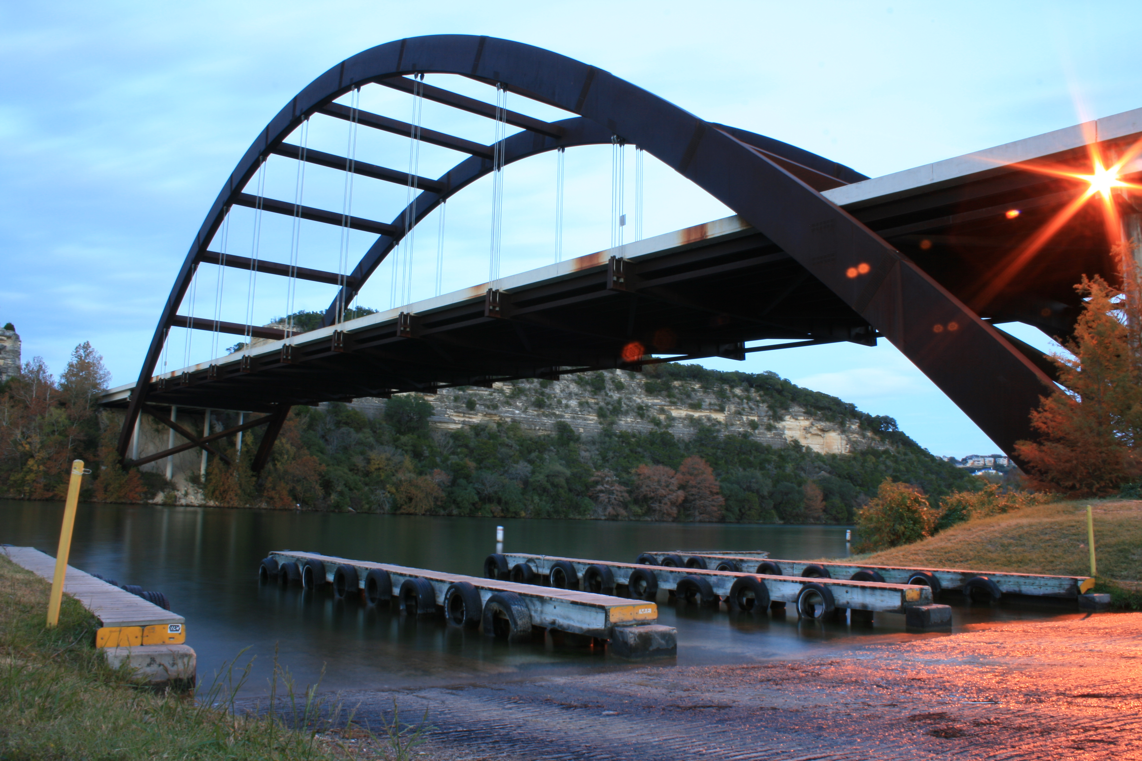 Pennybacker Bridge, Austin, Texas